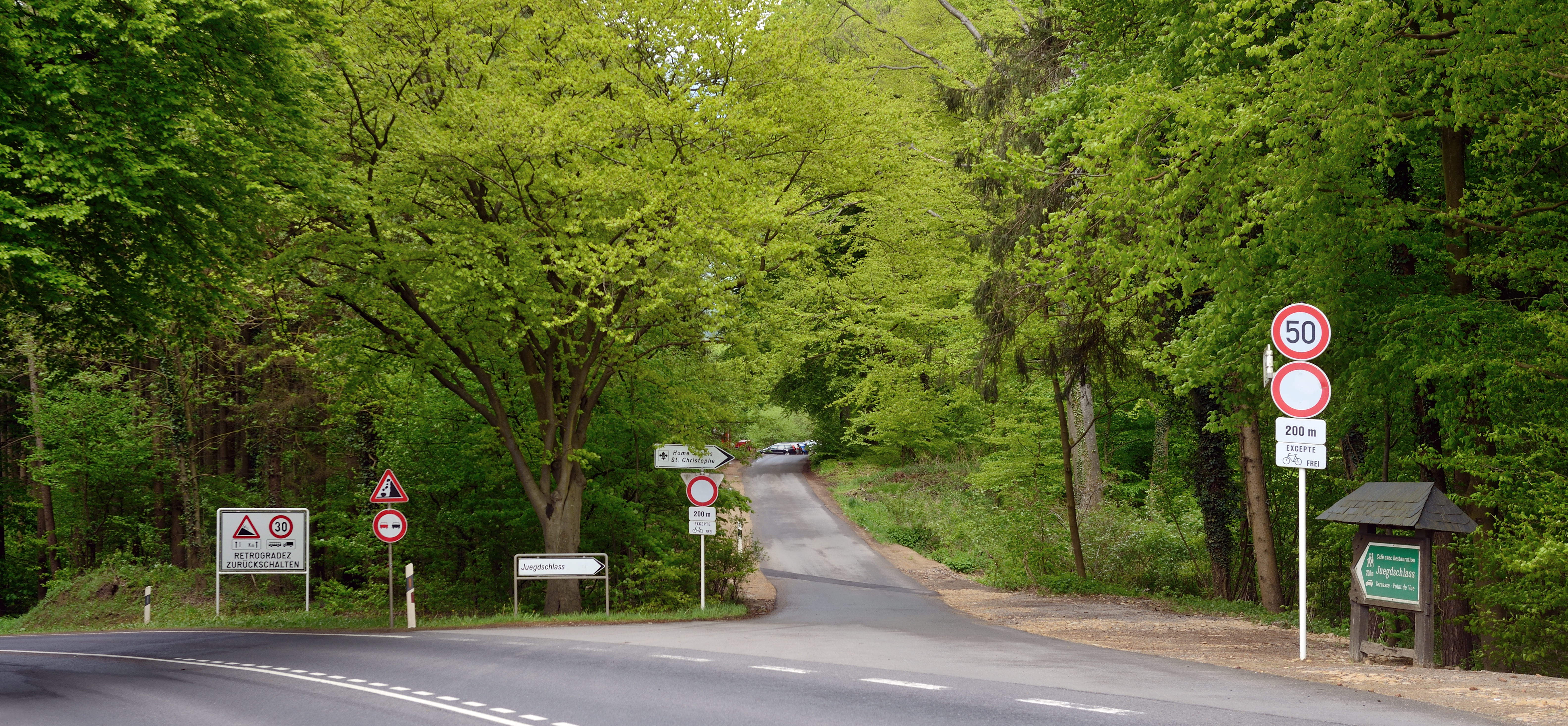 Luxembourg City, Bambësch: CR 181 (left) and rue des Sept-Arpents (right).